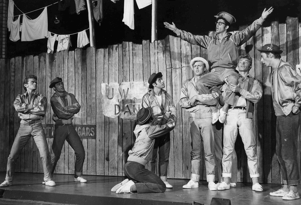 Photo of the "Gee, Officer Krupke" segment of West Side Story by the Jets.